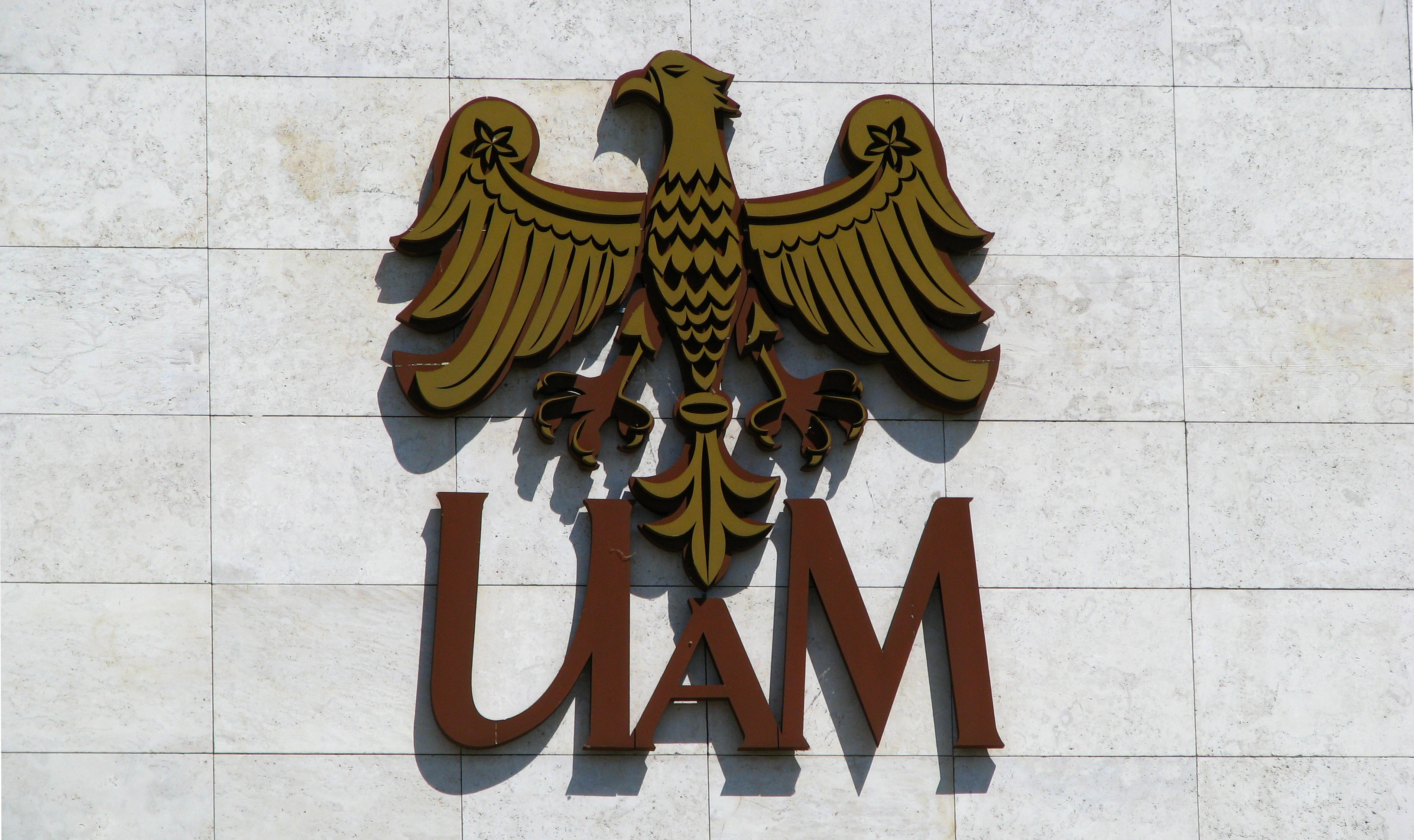 Graphic sign - logo UAM. Adam Mickiewicz University Poznań. Photo presents sign on building of European College at Gniezno